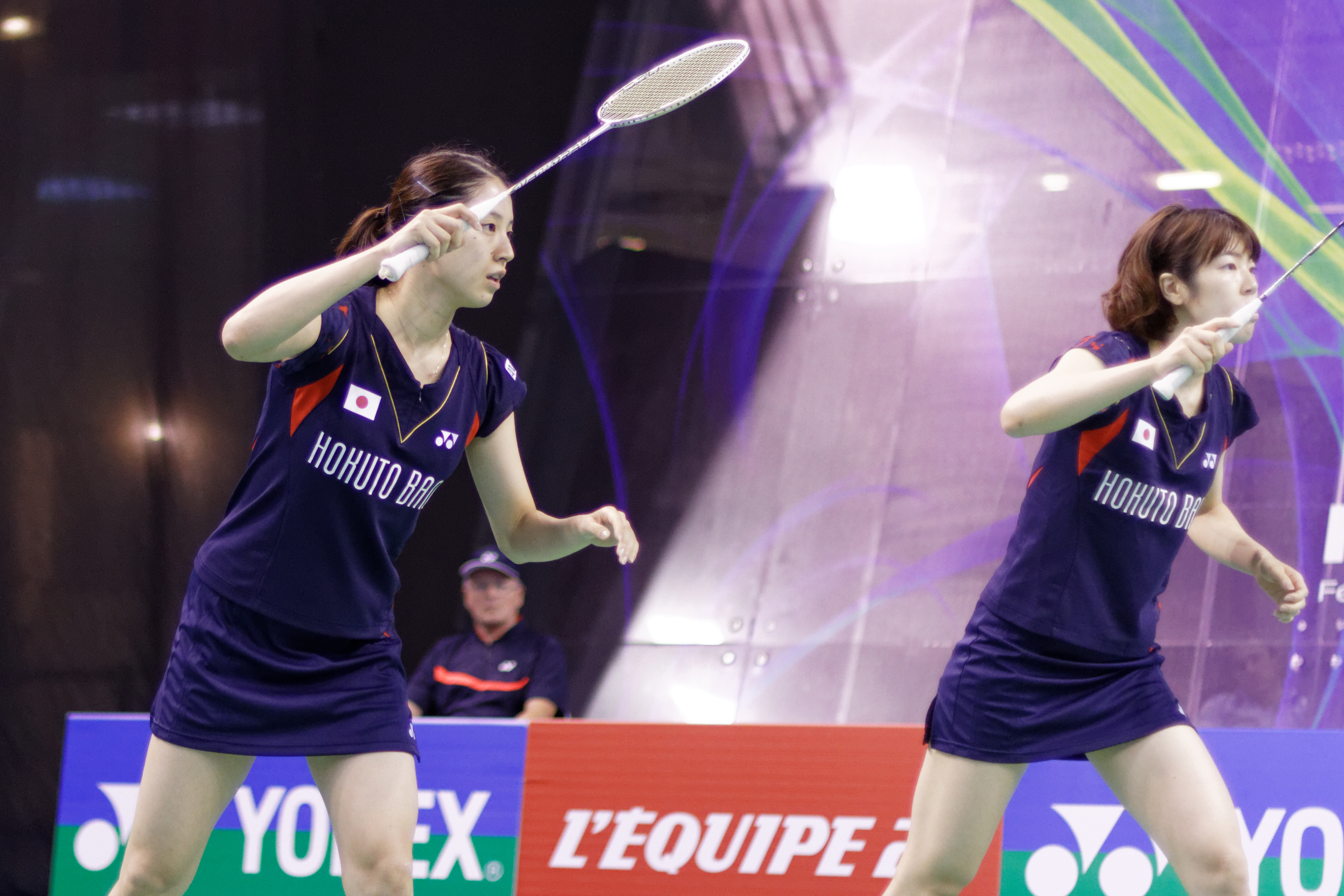 2013 French open. Women's doubles eightfinal. Yuriko Miki and Koharu Yonemoto vs Tian Qing and Zhao Yunleii.